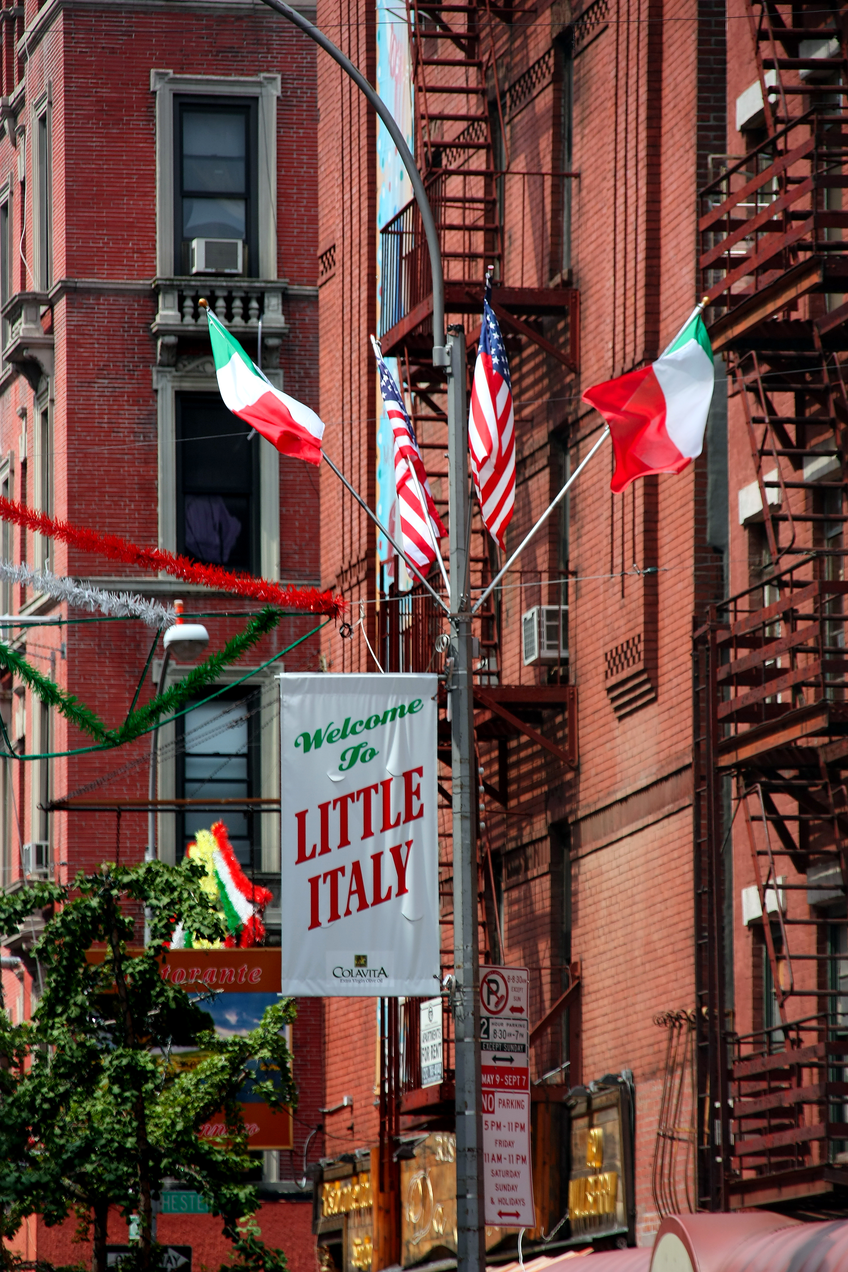 Welcome to Little Italy